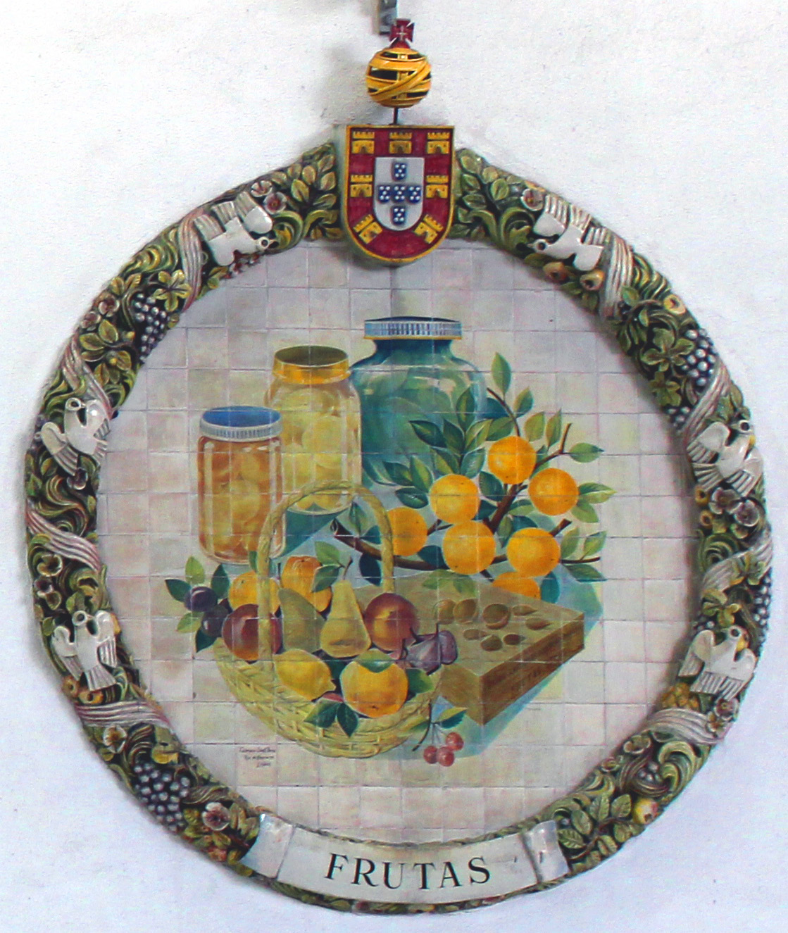 Rossio train station, Lisbon, Portugal